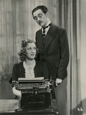 Scene from the Hungarian movie titled Vadrózsa (released in 1939)